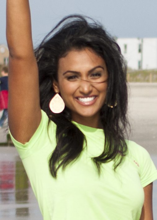 Scenes from the 2014 Miss America traditional toe dip